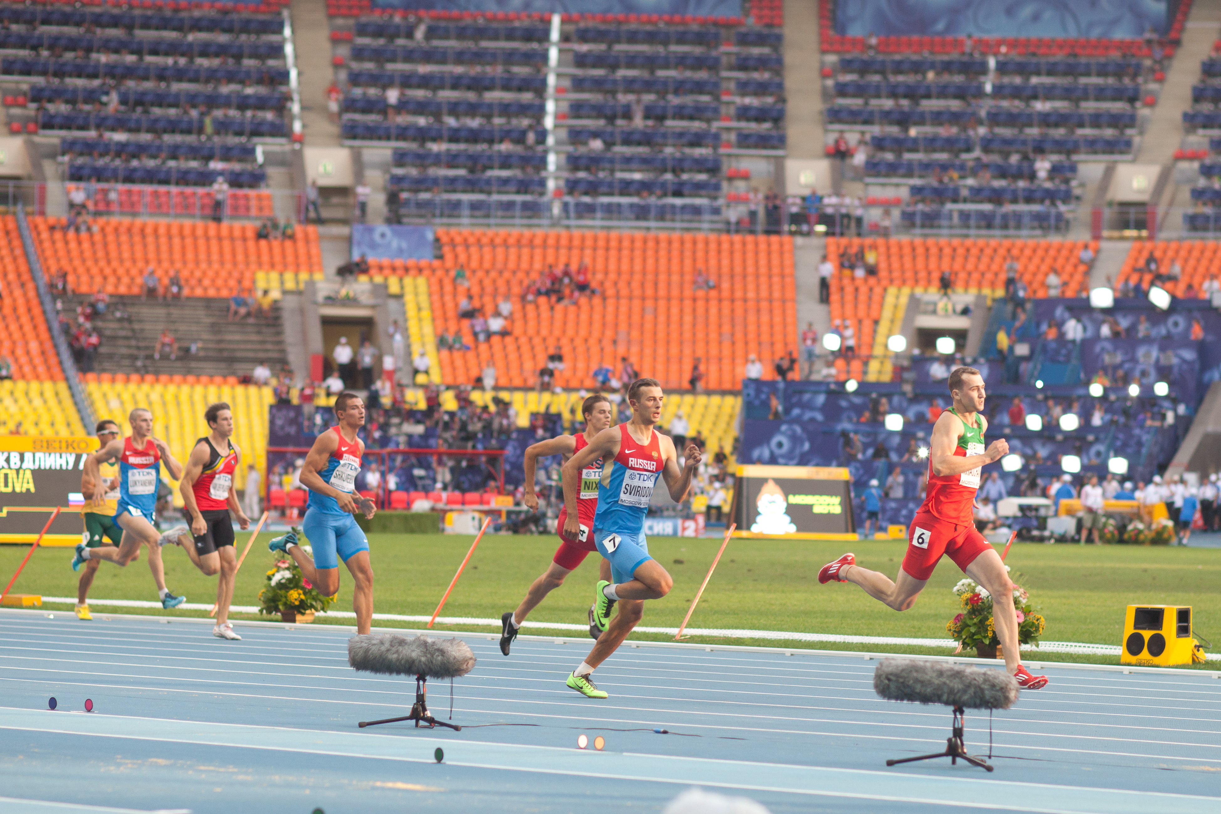 Willem Coertzen, Artem Lukyanenko, an unidentified decathlete, Ilya Shkurenyov, Gunnar Nixon, Sergey Sviridov and Andrei Krauchanka during 2013 World Championships in Athletics in Moscow.